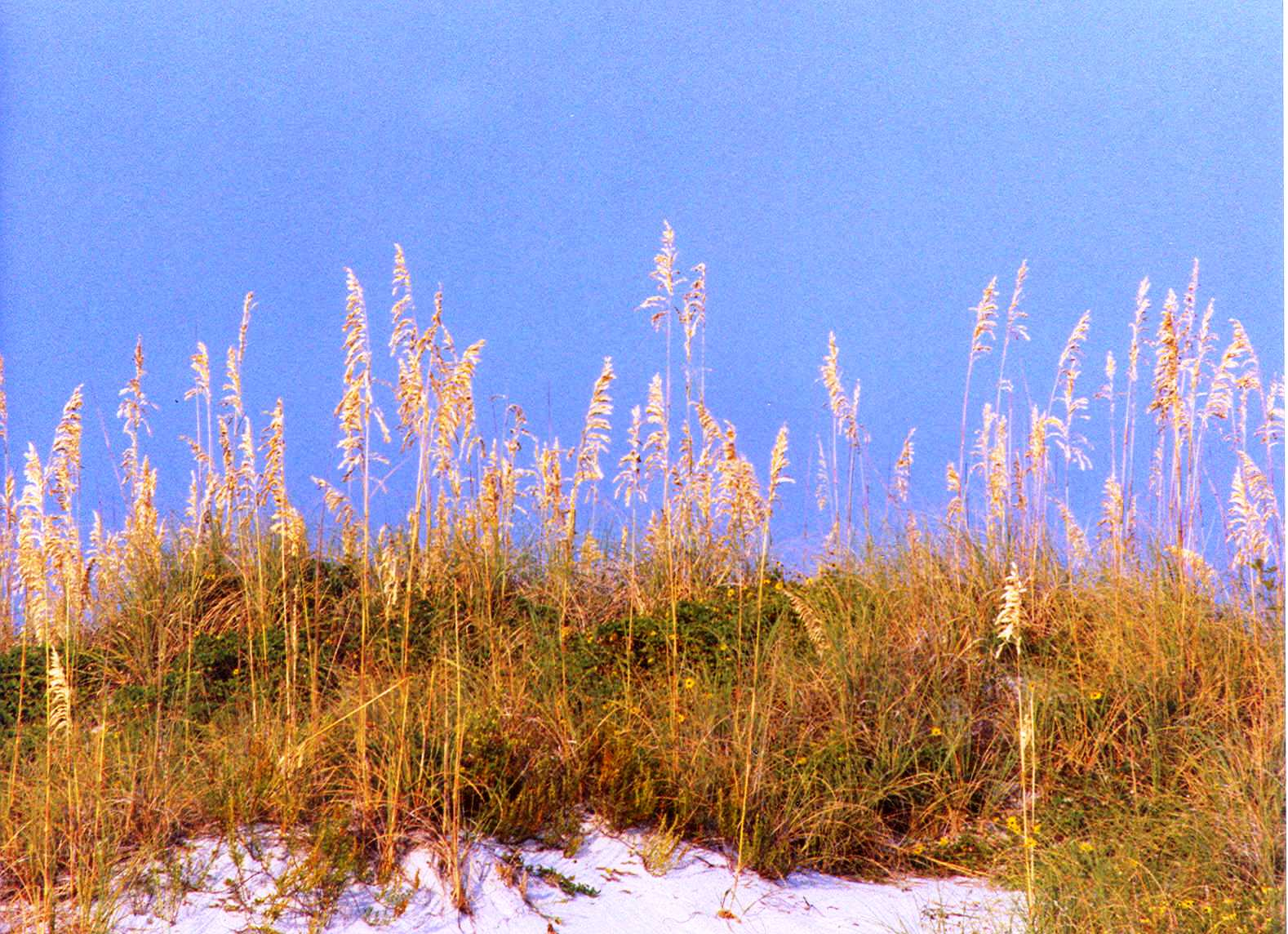 Mikereichold 03:56, 21 December 2005 (UTC), taken by me in October, 2005 at Sand Key County Park, Clearwater, Florida.